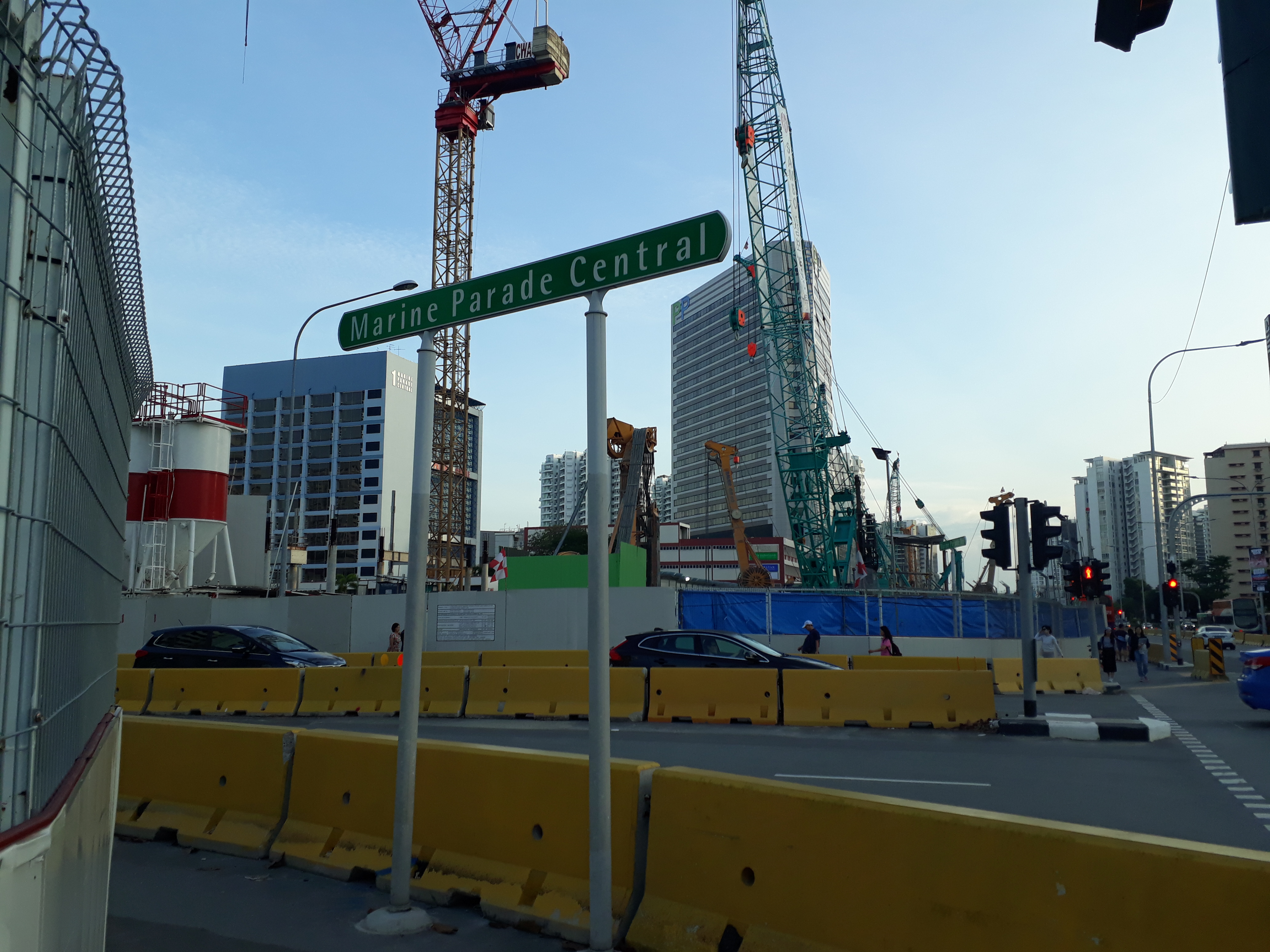 A construction site of Marine Parade